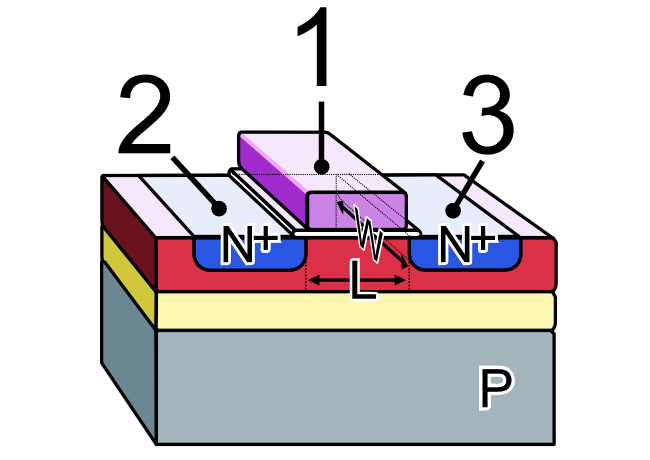 MOS-FET gate model (n-channel) without tags